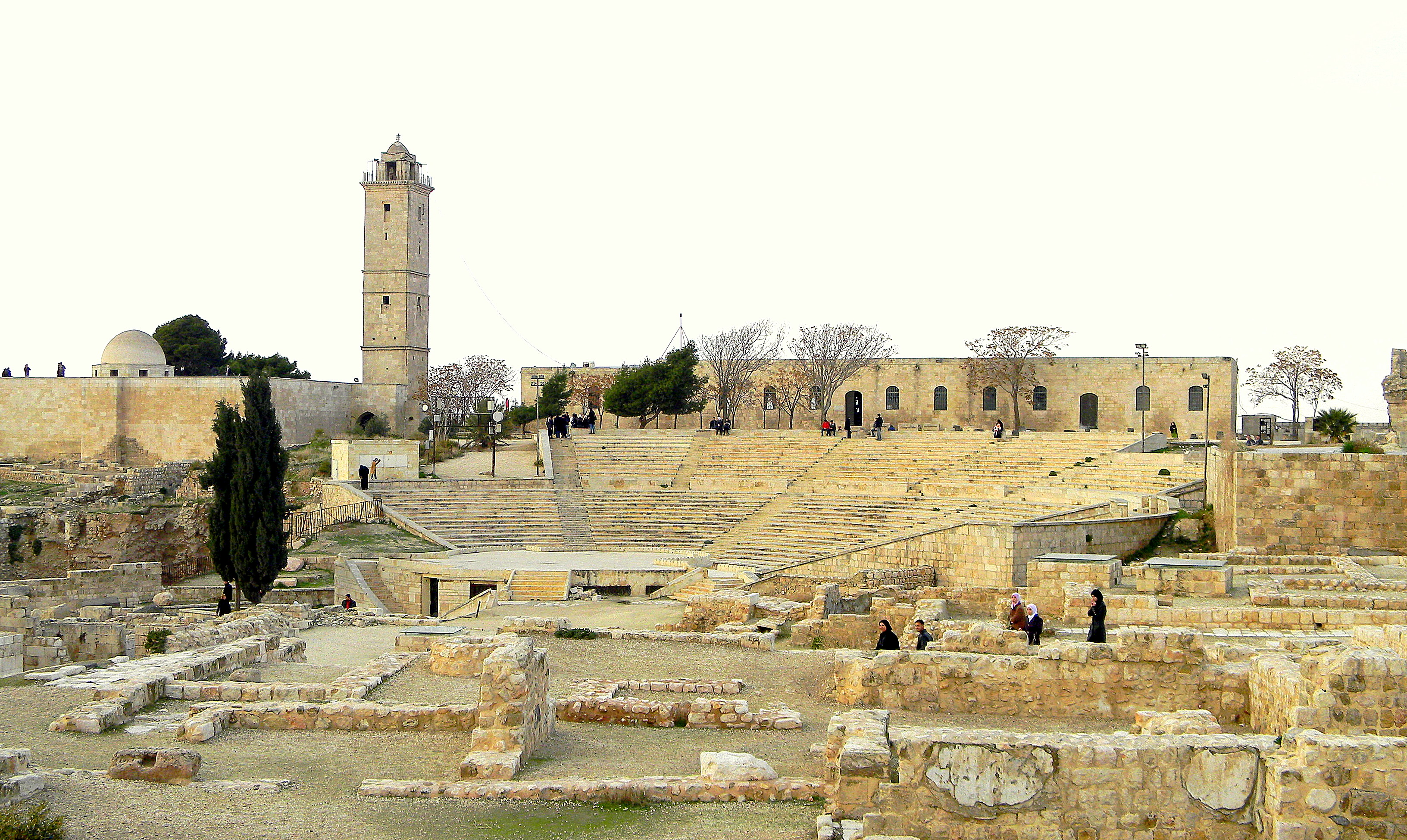 Aleppo citadel amphitheatre with the museum hall in the background